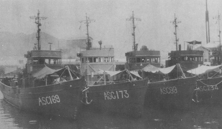 Japan Demobilization Agency Auxiliary submarine chaser No.169, No.173, No.99 and No.234 (left to right)